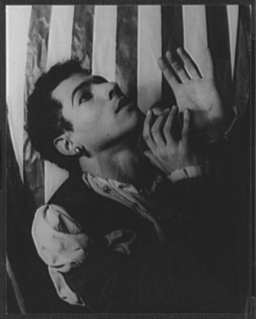 Title: Portrait of Francisco Moncion, in Sebastian Abstract/medium: 1 photographic print : gelatin silver.